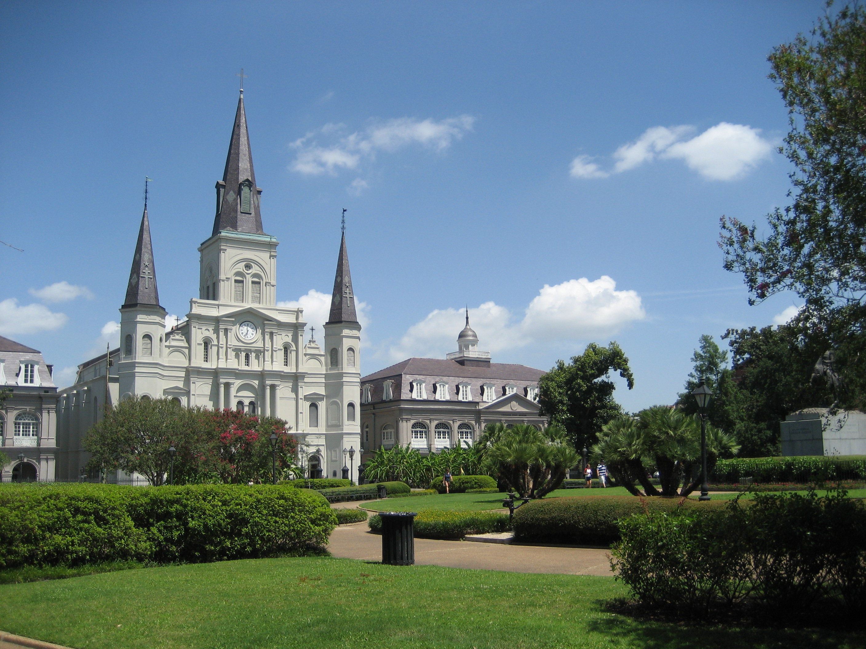 New Orleans: St. Louis Cathedral with the Presbytere building to its right seen from in Jackson Square